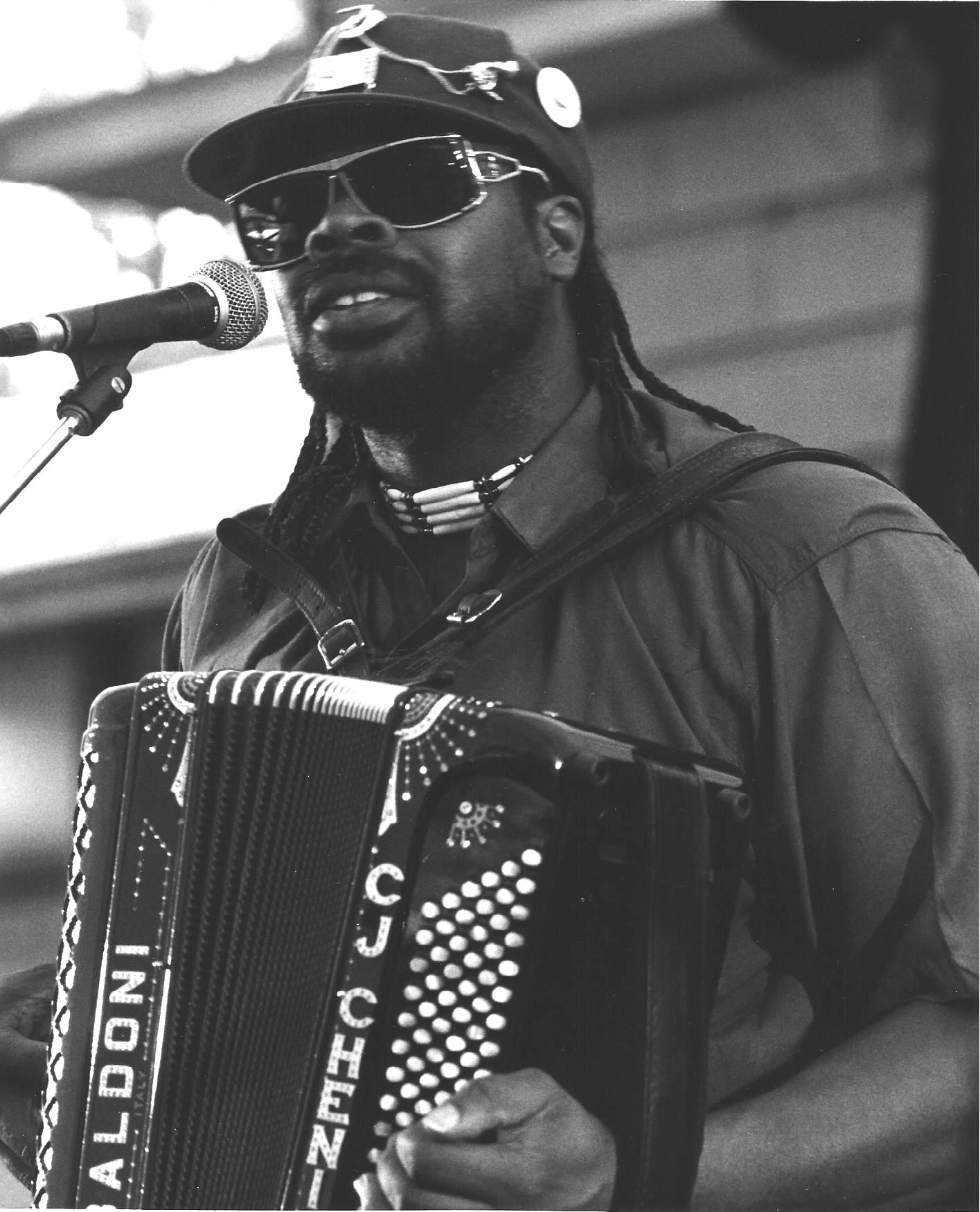 Ross Bandstand, Edinburgh, about 12 years ago- 1997 Photographer: Phil Wight